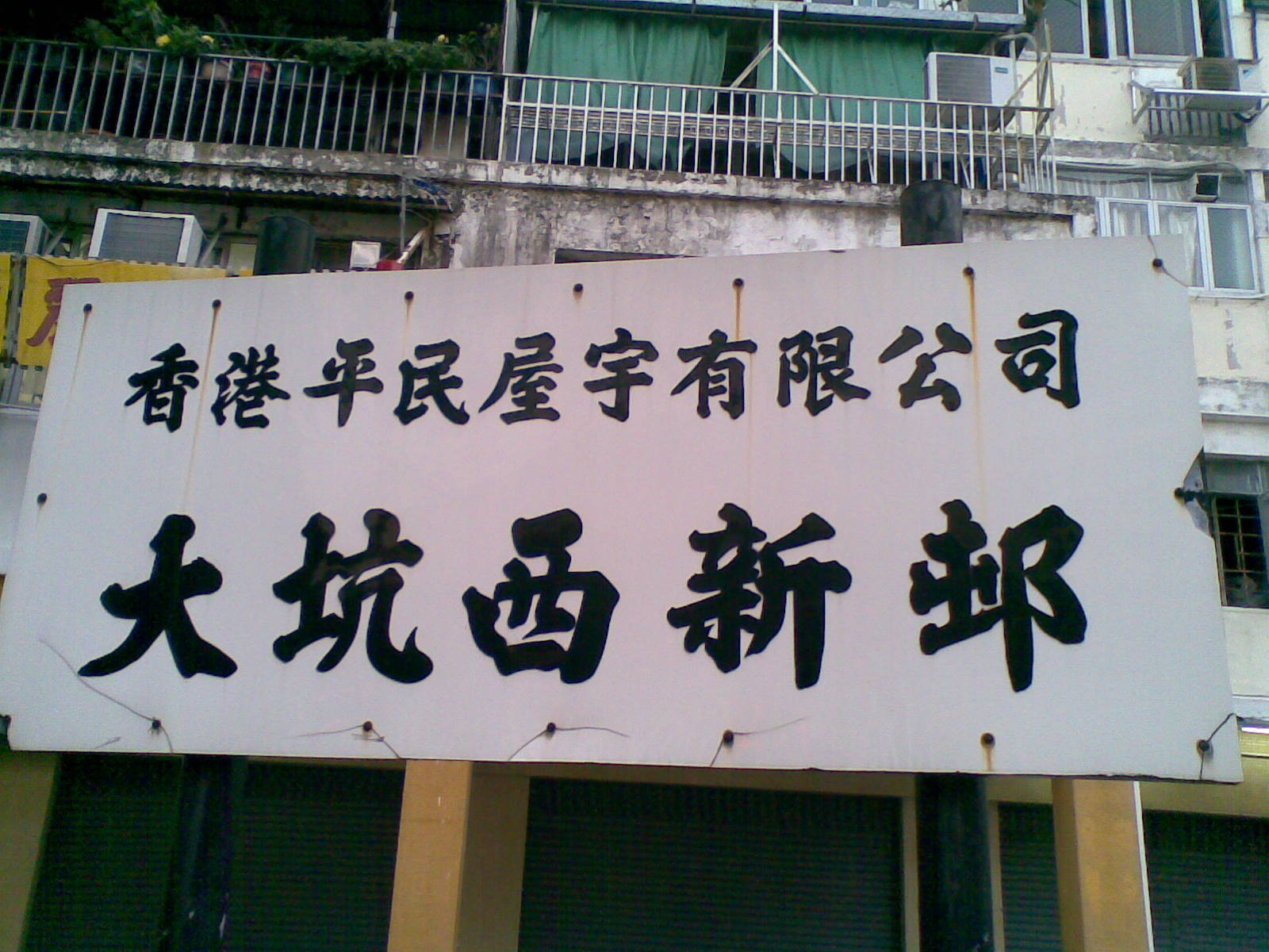 Tai Hang Sai Estate, Sham Shui Po, Kowloon, Hong Kong